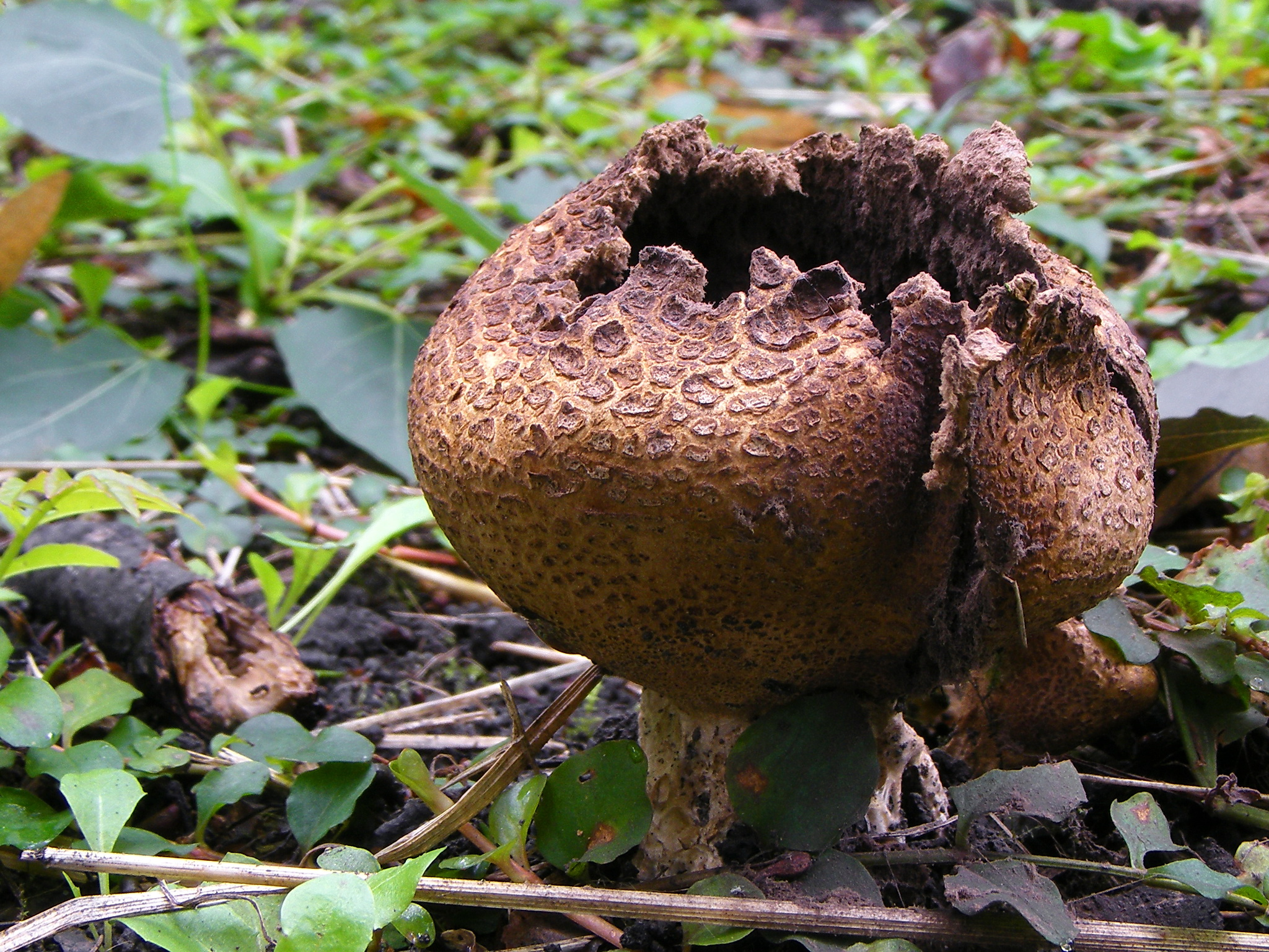 Scleroderma verrucosum specimen.